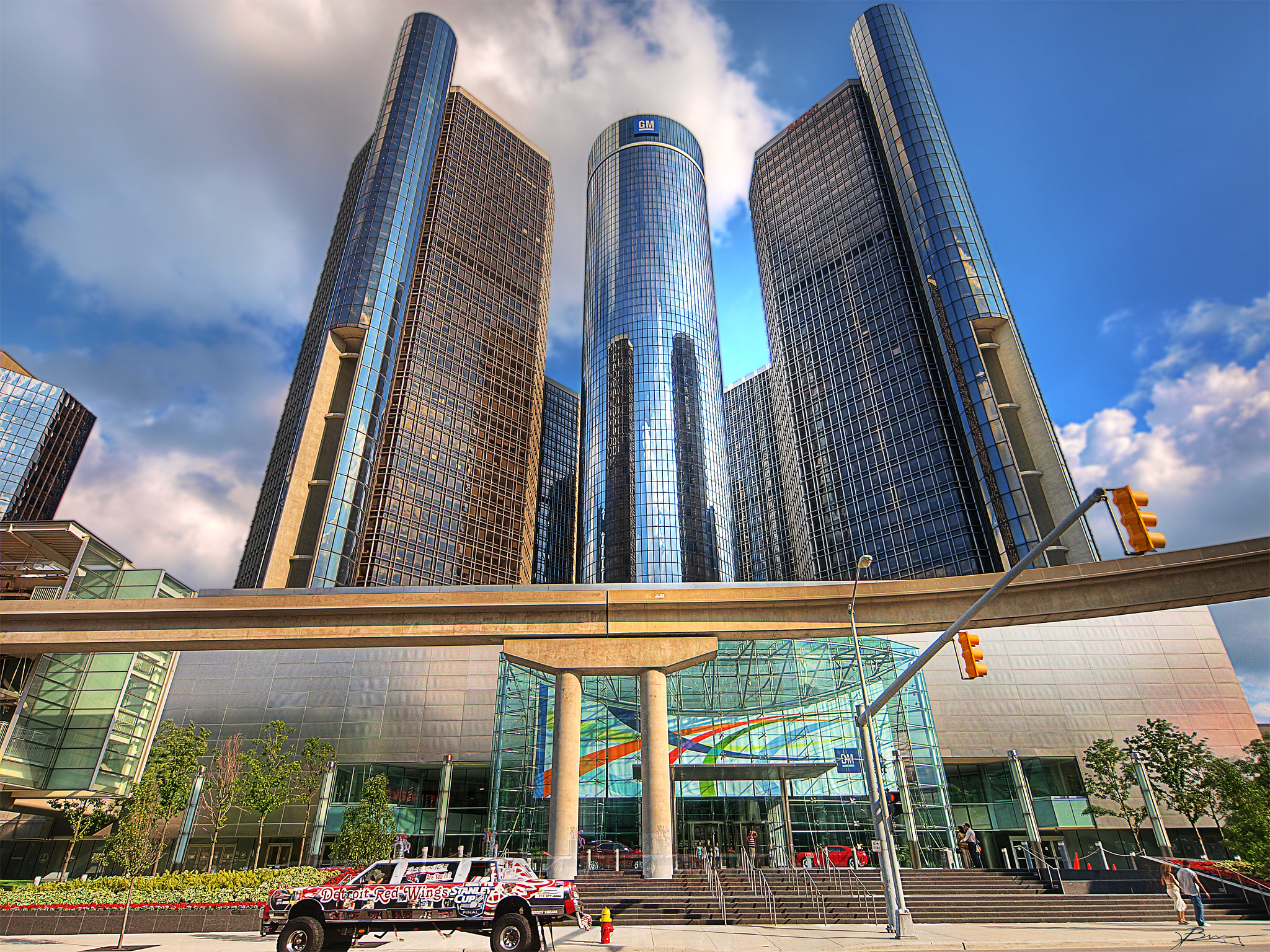 GM Renaissance Center from below